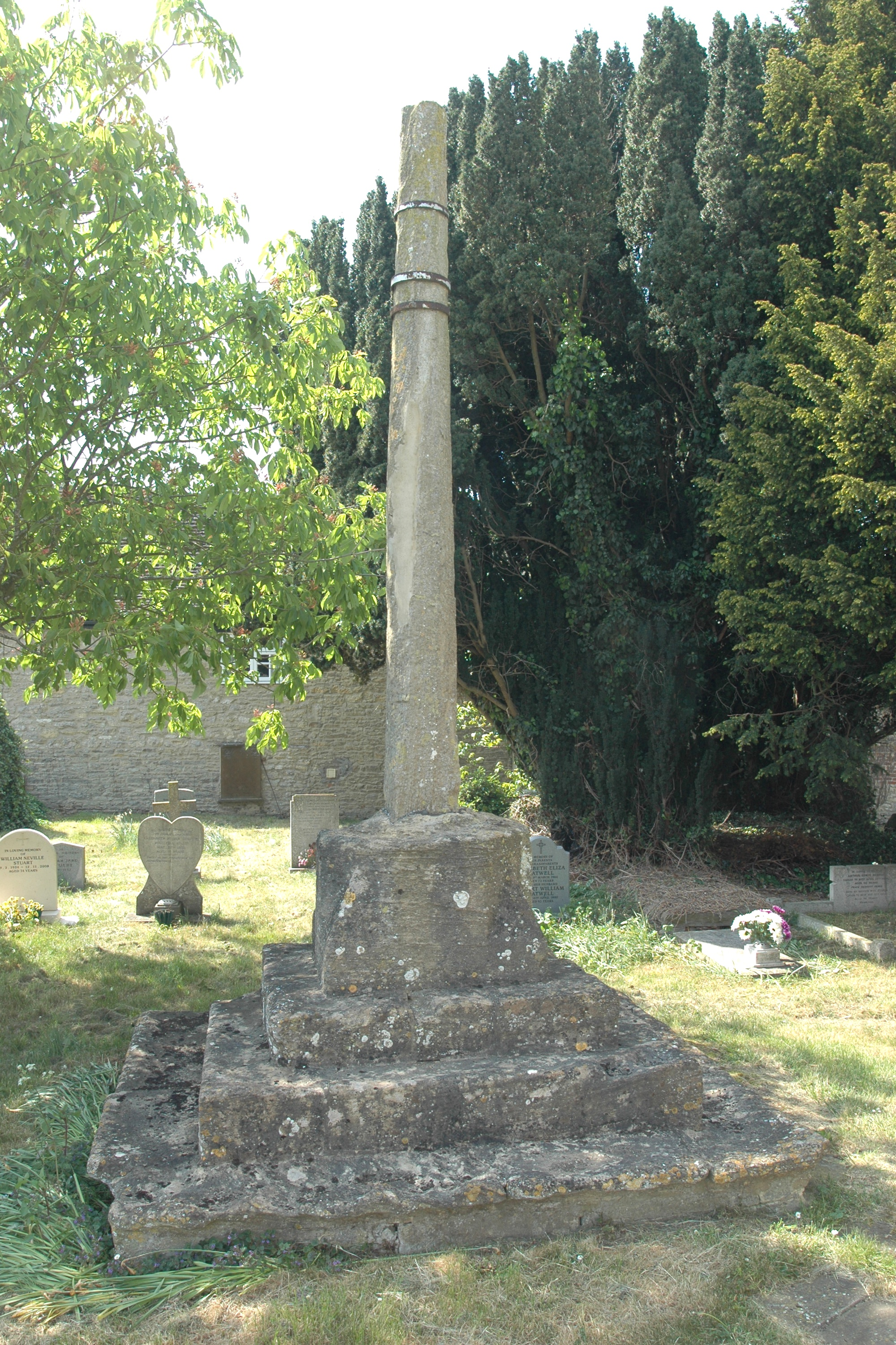 Stone cross outside the Church of England parish church of St Mary the Virgin, Charlton-on-Otmoor, Oxfordshire